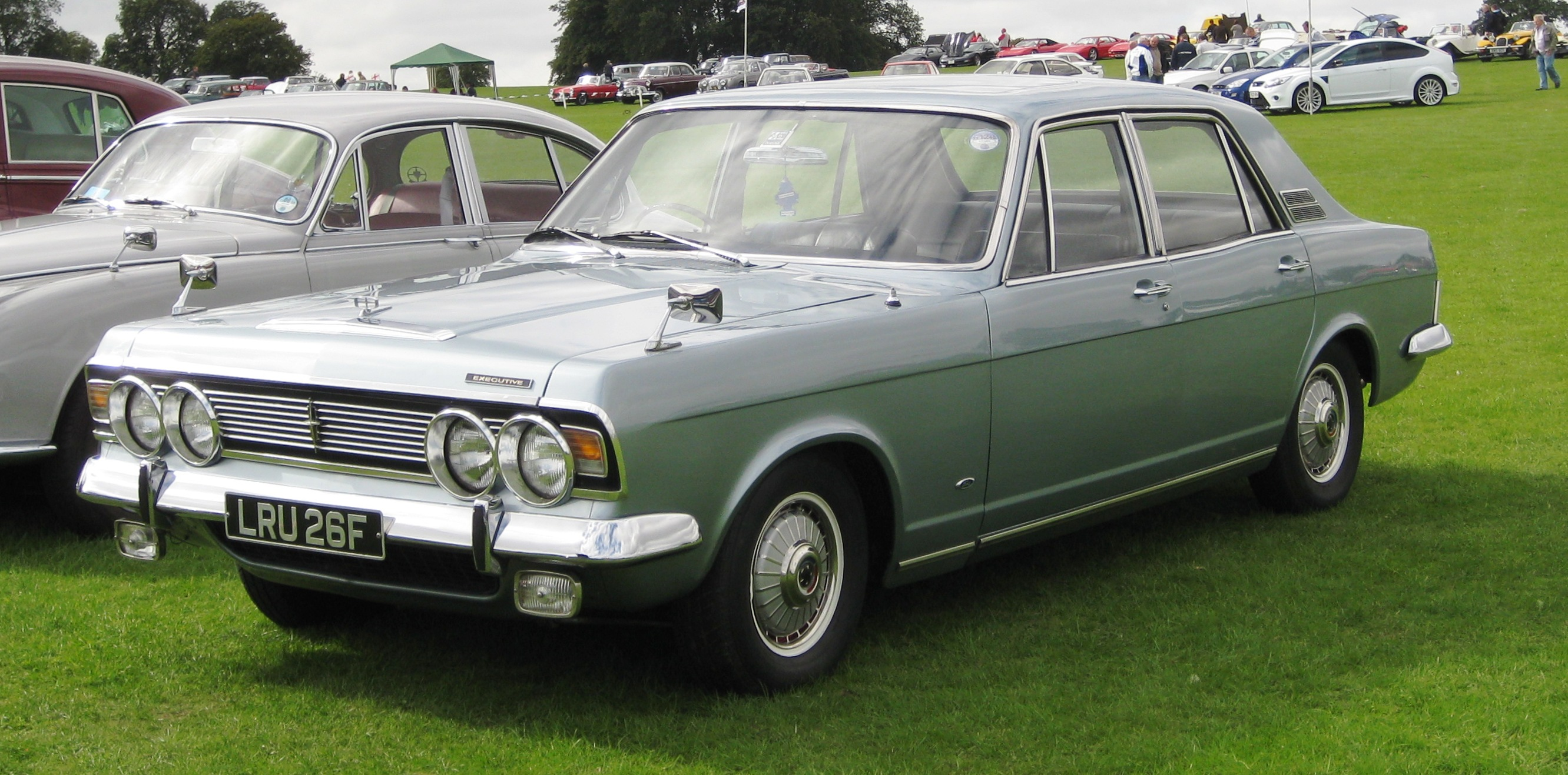 Ford Executive (up-market Ford Zodiac Mark IV)